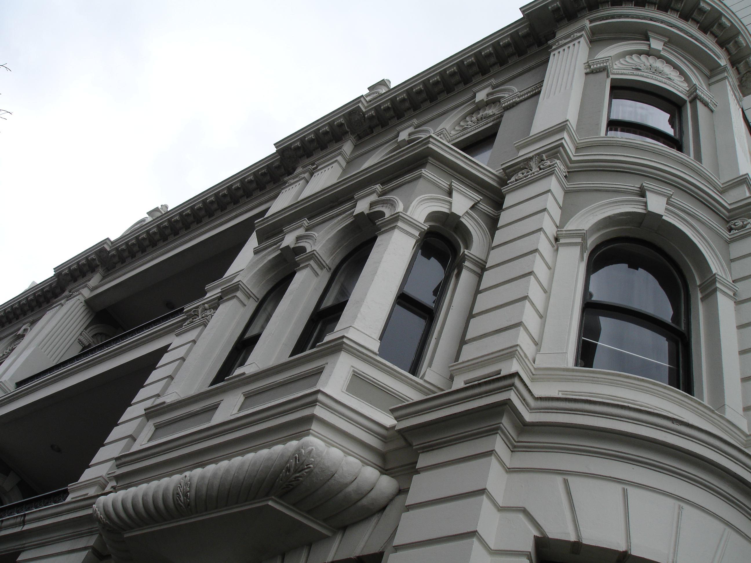 The Grand Hotel, Princes St, Auckland, New Zealand. Now frontage to Princes St for the Fonterra Centre/tower along with the neighbouring 1881 Freemasons Hall (also demolished in the 1988 except for front facade)